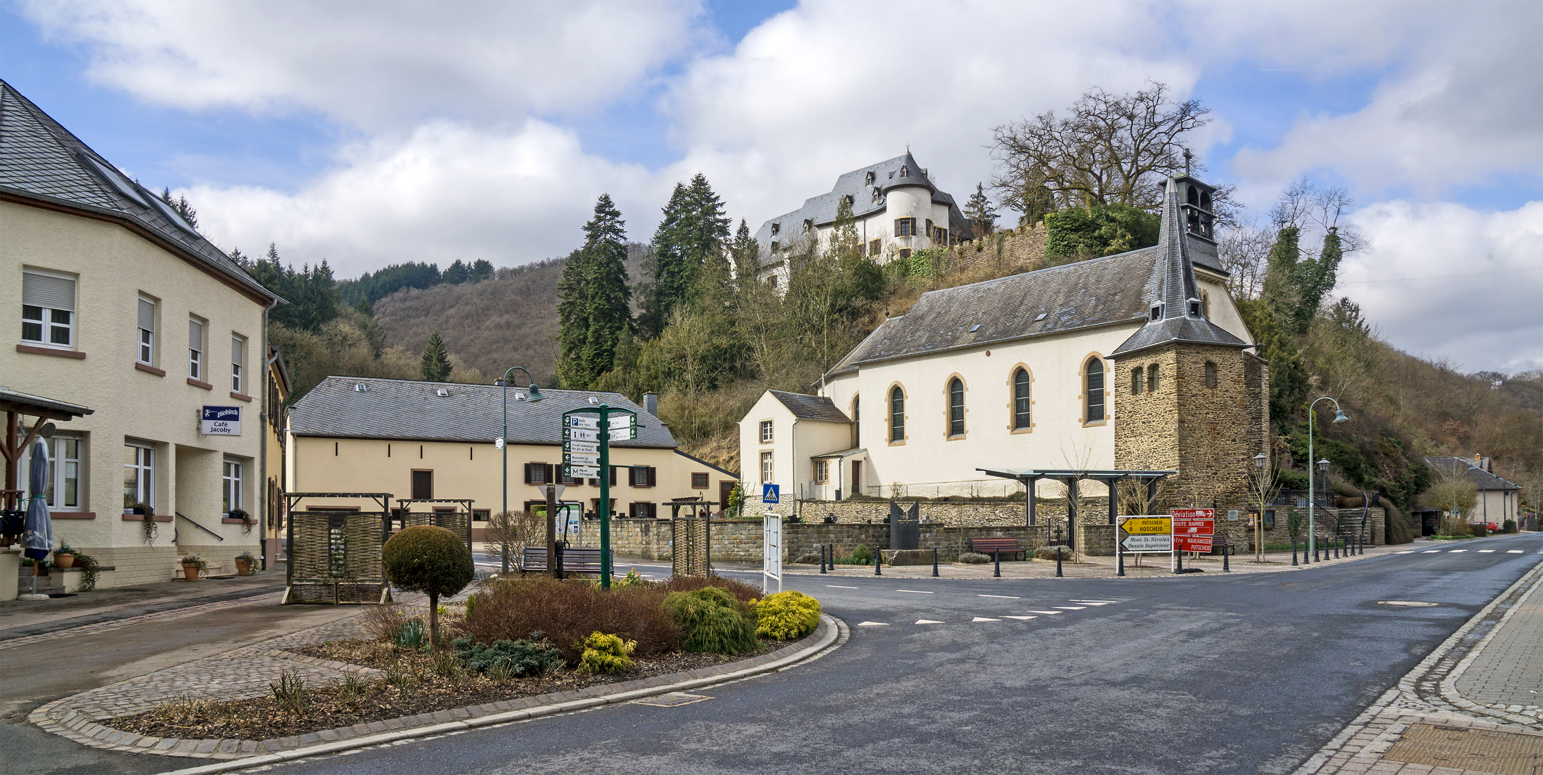 Stolzembourg centre with the church and the castle